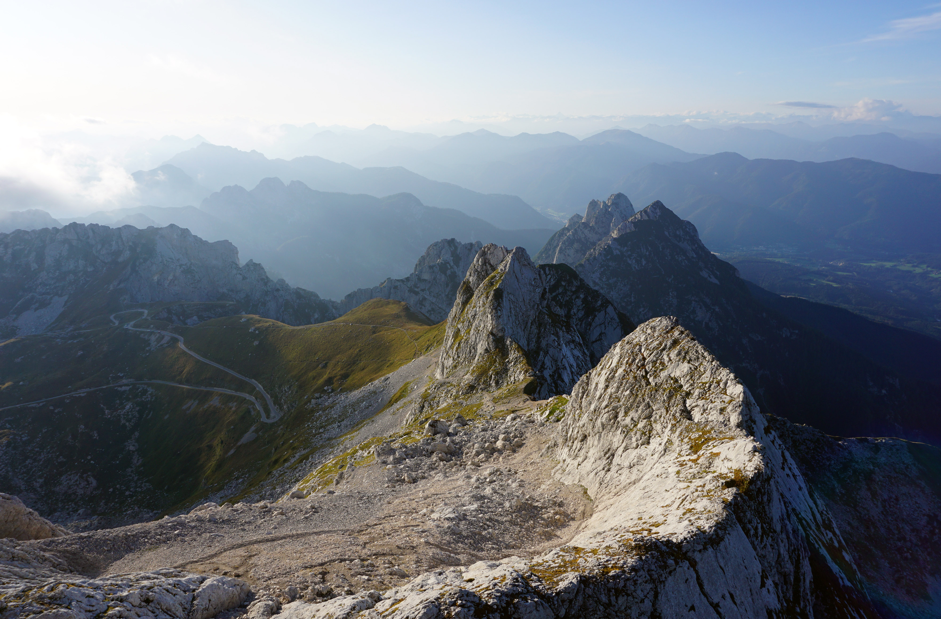 Mangart Pass seen from the Via Ferrata trail going up to the mountain.